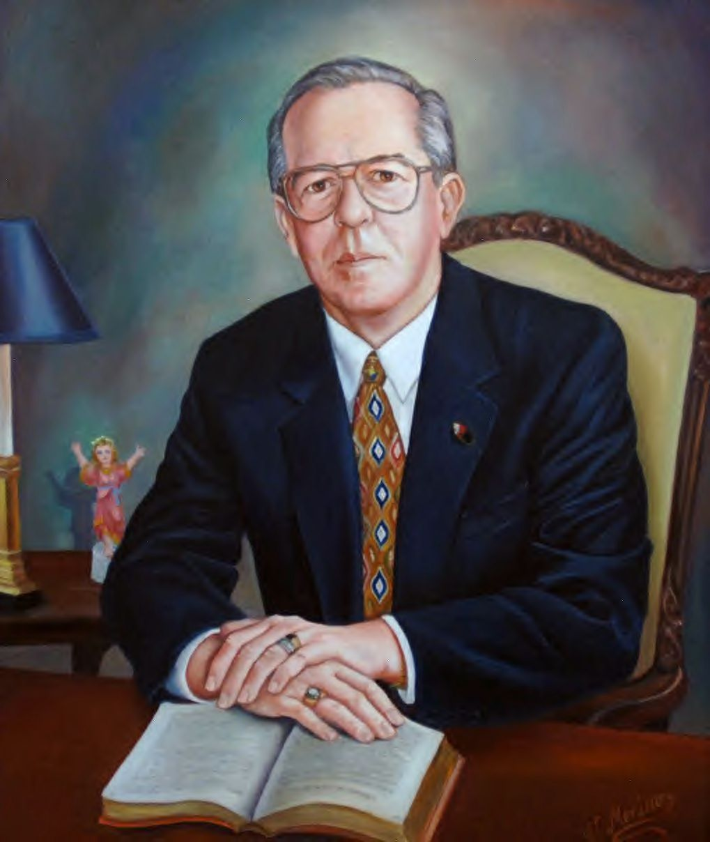 Painting of the Honorable Roberto Rexach Benítez, former Secretary of State of Puerto Rico.